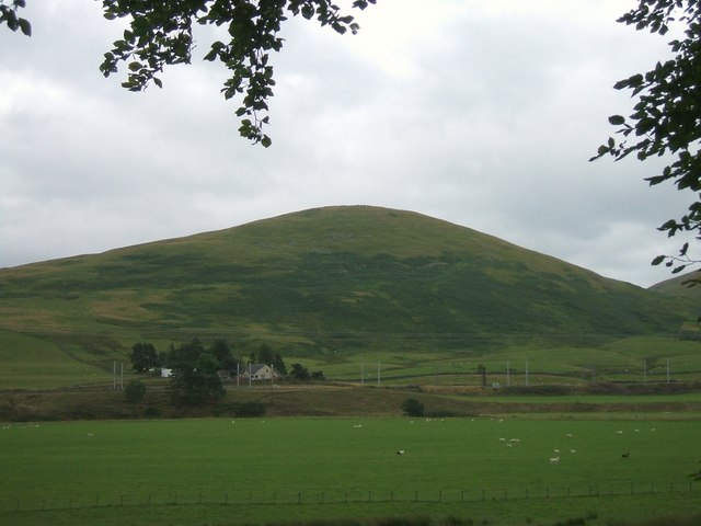 Arbory Hill View of the hill from the A702 Abington road.